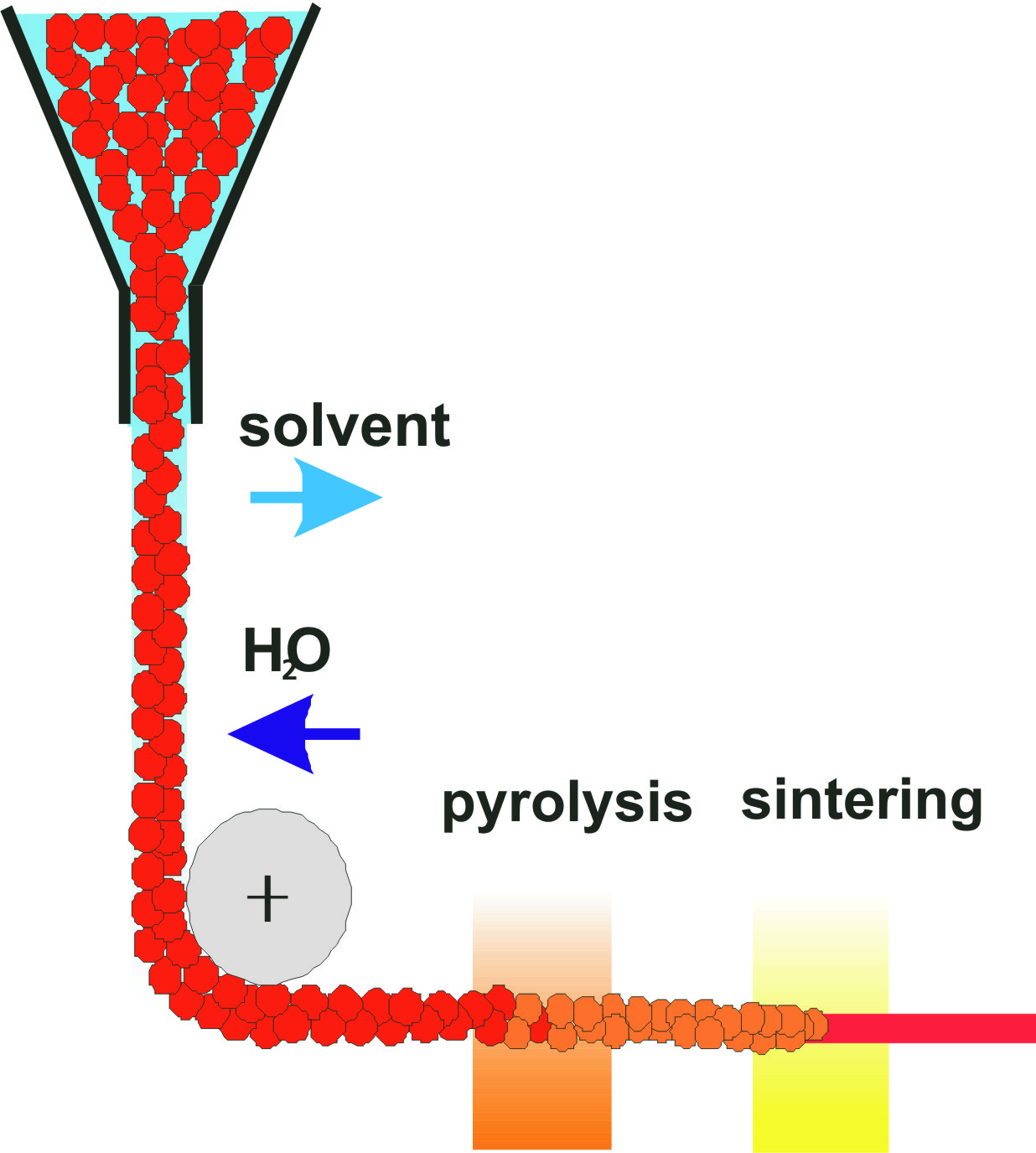 Sol-gel preparation of inorganic fibers